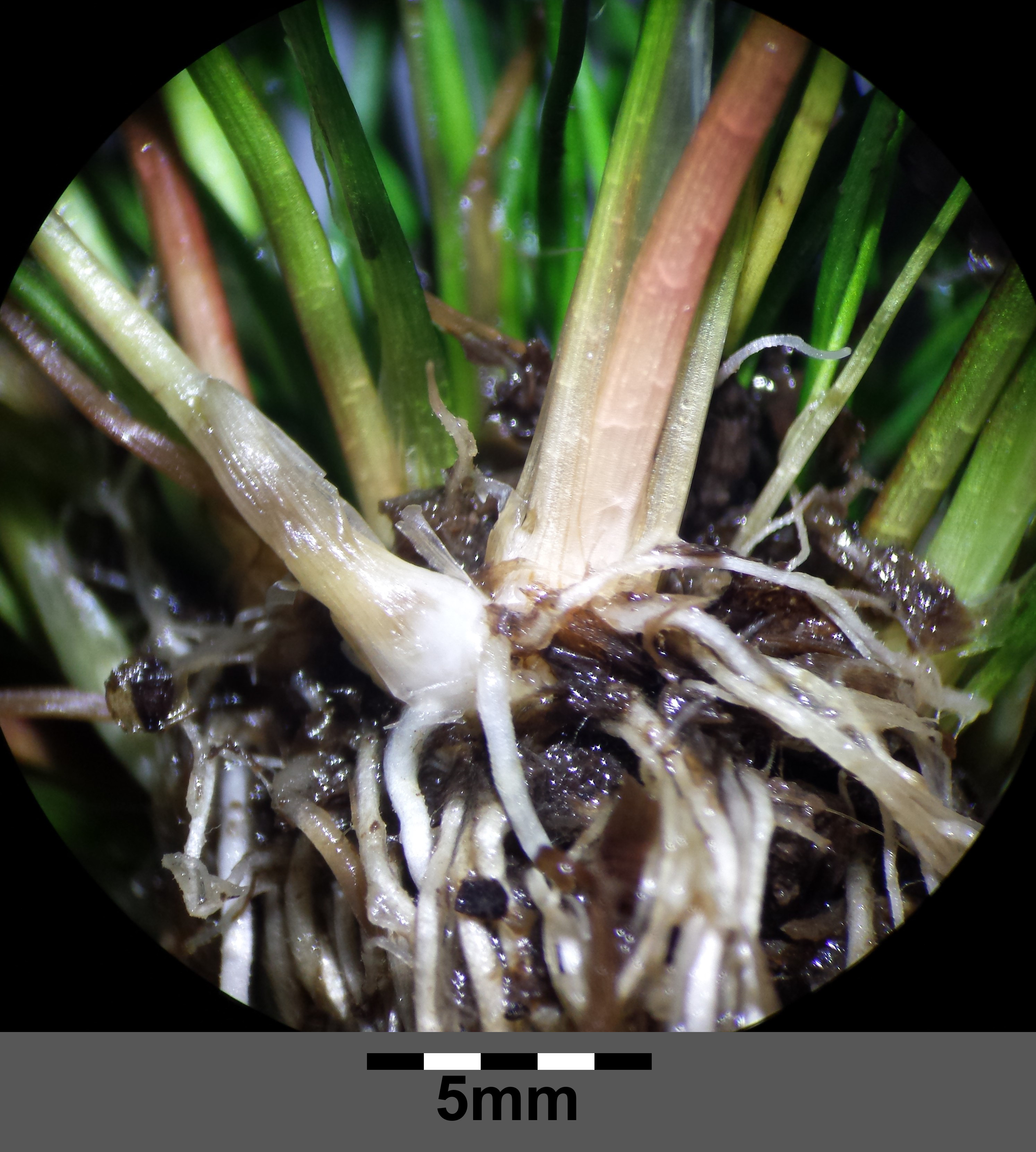 Base of stipes, partly knotty Taxonym: Juncus bulbosus ss Fischer et al. EfÖLS 2008 ISBN 978-3-85474-187-9 Location: pond to the south of Pyhrabruck, district Gmünd, Lower Austria - ca. 550 m a.s.l. Habitat: ground of a pond